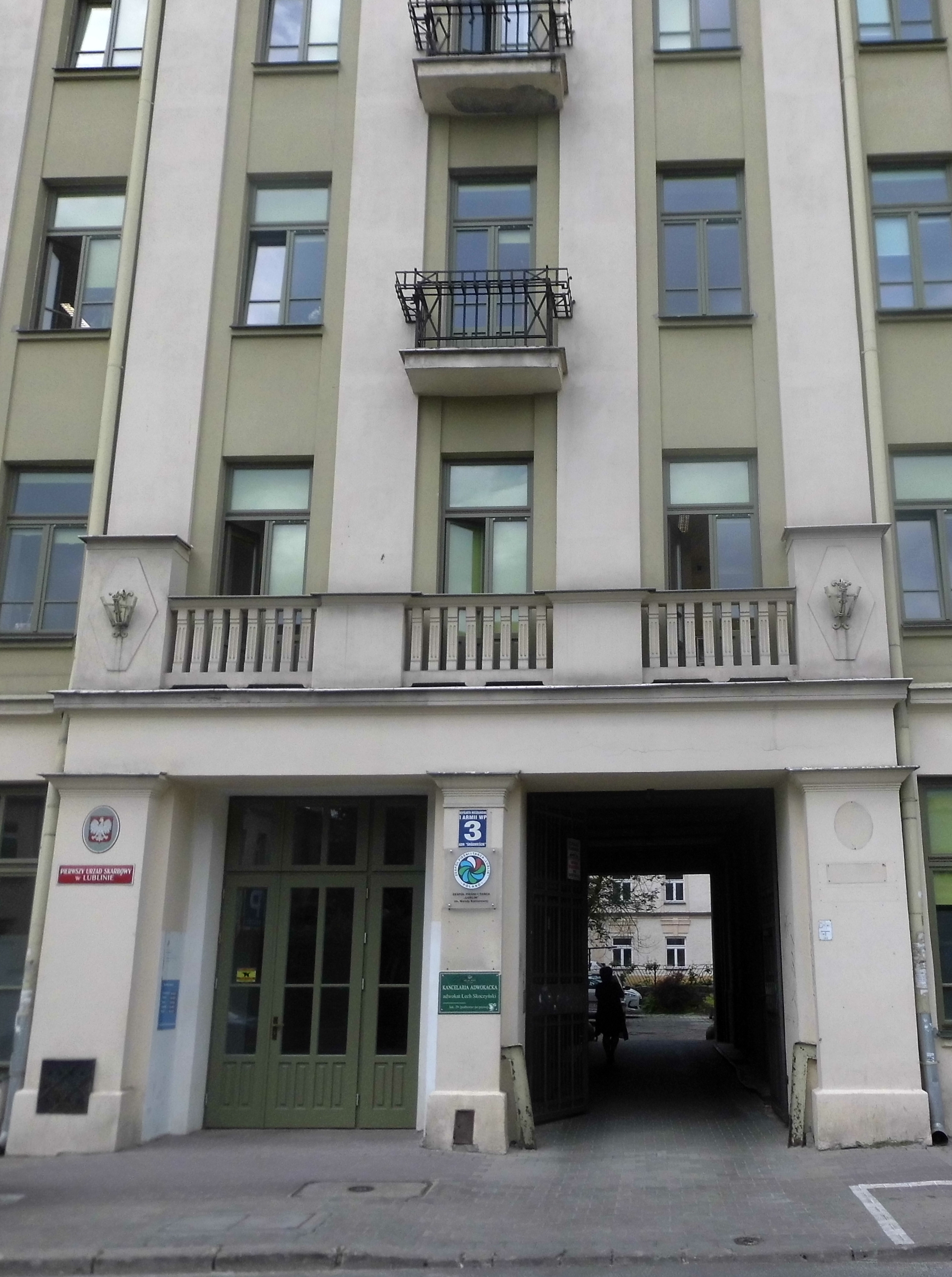 Budynek